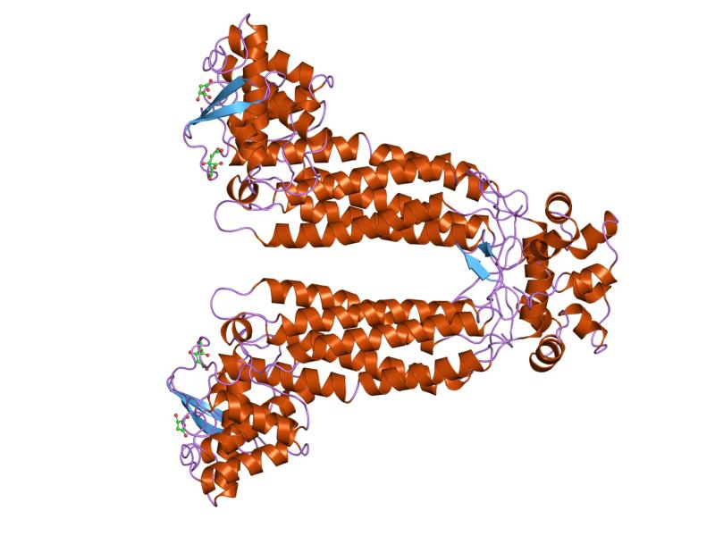 Cartoon representation of the molecular structure of protein registered with 1fuo code.